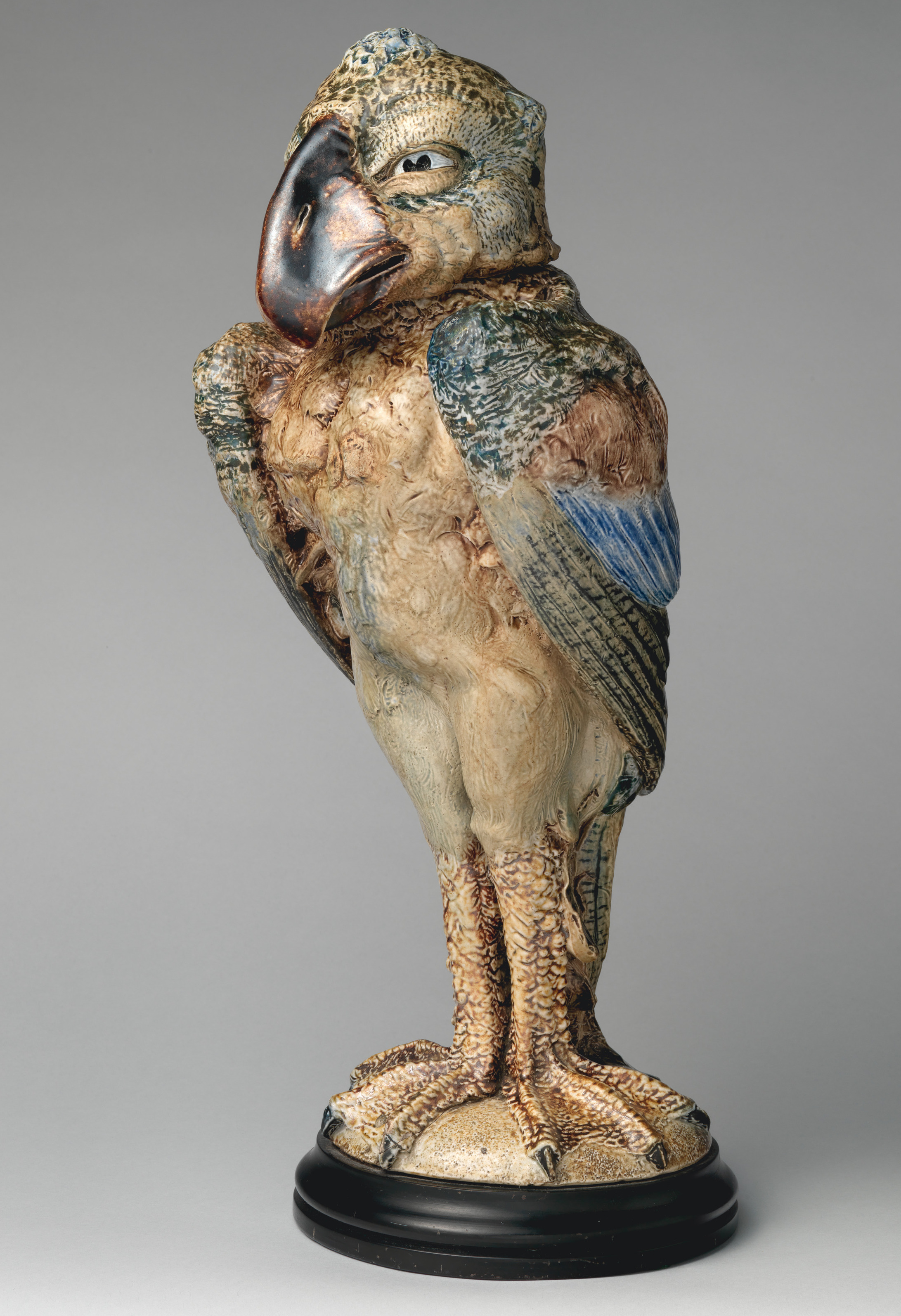 British, Southall, London; Figure; Ceramics-Pottery